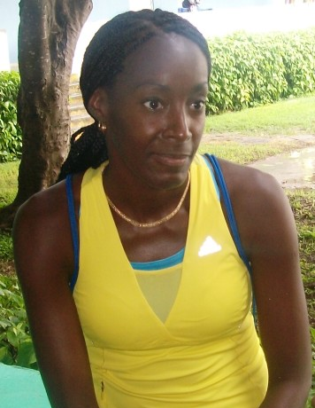 En proceso de entrevista con la atleta cubana Mabel Gay. Atleta especializada en triple salto. Medallista Mundial en Berlin 2009 (Plata) y Estambul 2012 (Bronce indoor). Lugar Estadio Panamericano en La Habana